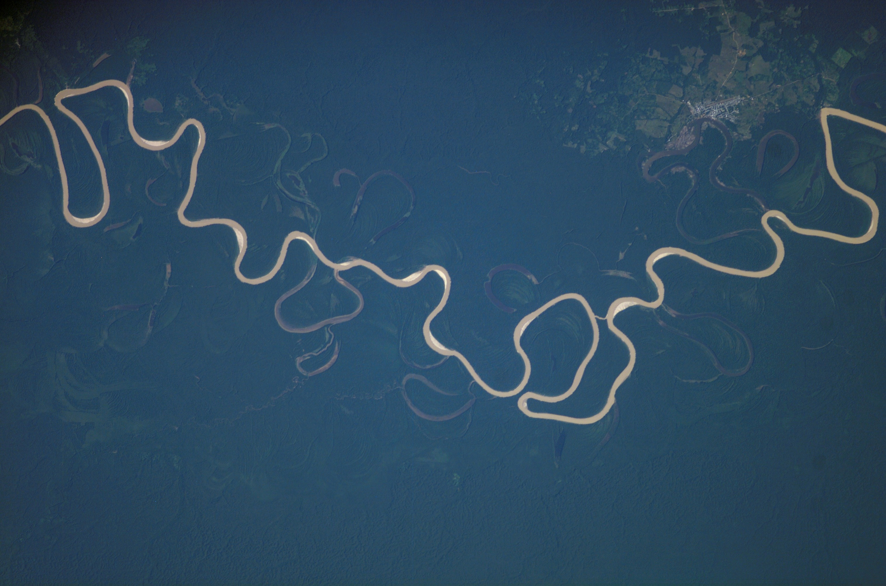 NASA Astronaut Photography of Earth - Display Record ISS015-E-15057, Carauari, Amazonas, Brazil. Showing the city of Carauari, the Juruá River and its tributaries. From International Space Station (Expedition 15). Latitude (LAT): -4.5, Longitude (LON): -67.5, Altitude (ALT): 178 Nautical Miles, Sun Azimuth (AZI): 62°, Sun Elevation Angle (ELEV): 24°